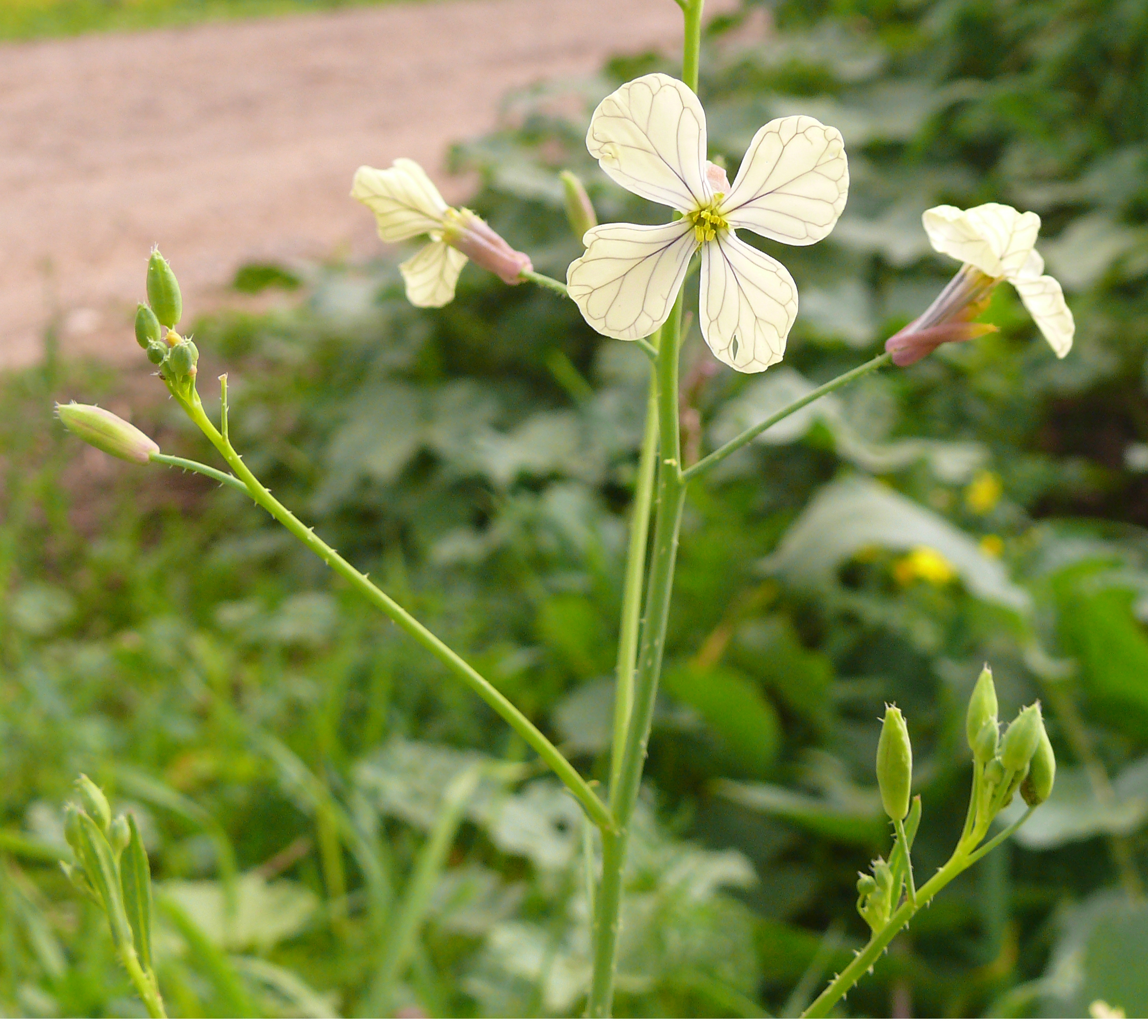 Raphanus raphanistrum